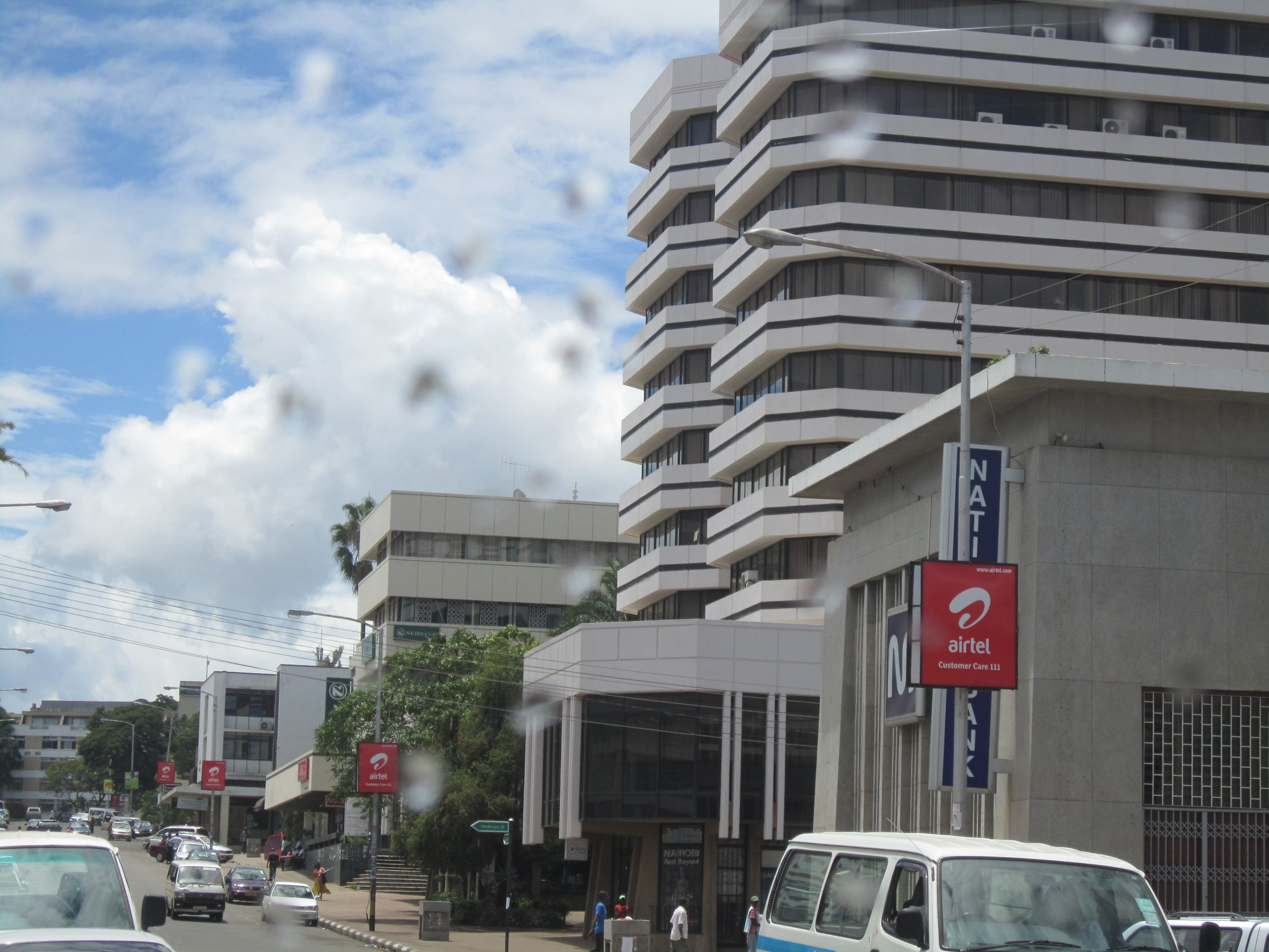 At Chayamba Building, facing Mount Soche HotelChi-Chewa: Pa Nyumba yochedwa Chayamba, tikamayang'ana ku Mount SocheChiTumbuka: Pala tili pa nyumba ya Chayamba, kulozya ku hotelo ya Mount Soche